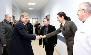 The U.S. Ambassador to Georgia Richard Norland meets Gori Military Hospital Personnel on January 9, 2013.